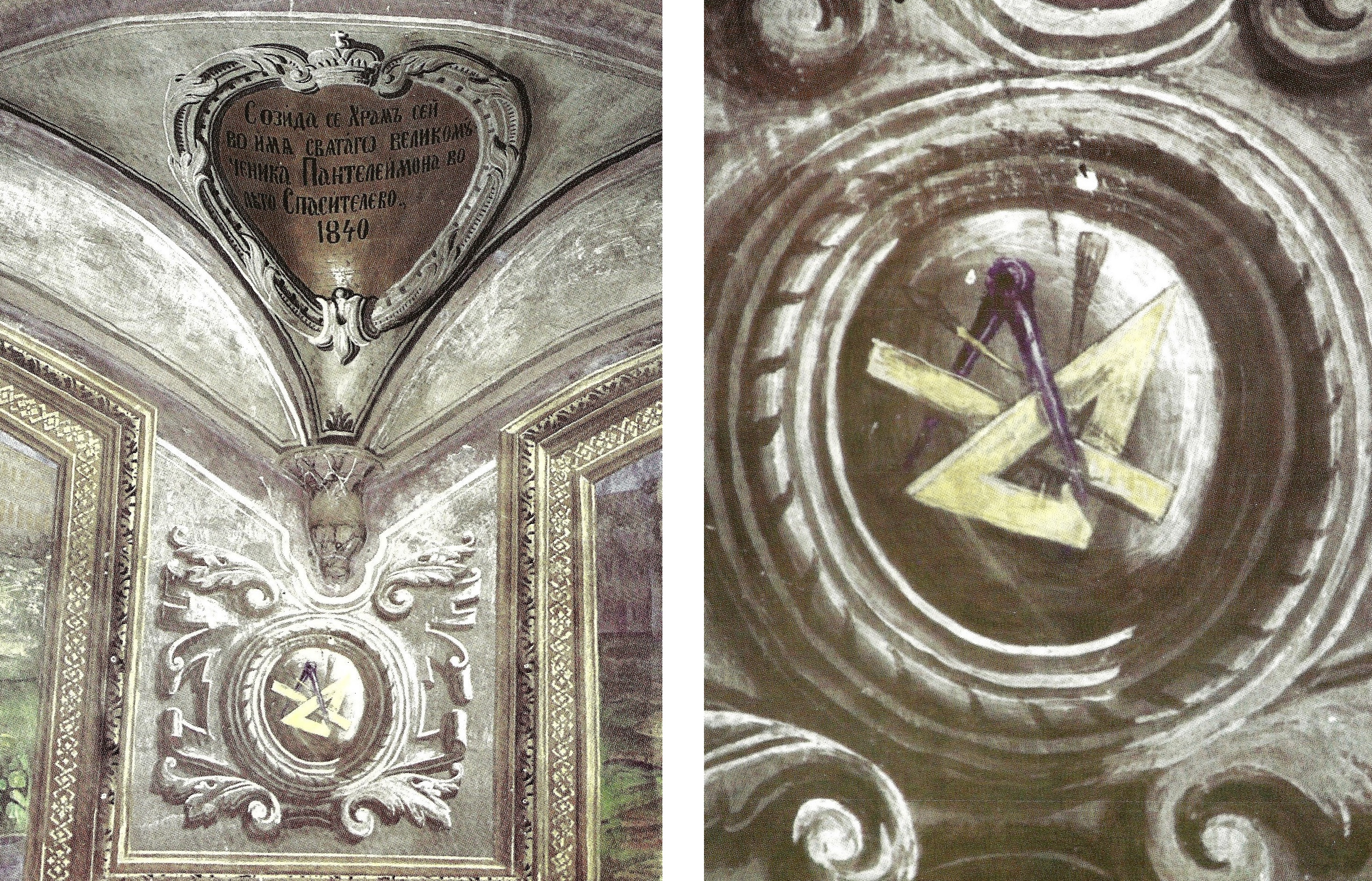 The insignia of Master Builder (operative Freemason) Andrey Damyanov, as seen on a wall painting inside the St. Panteleimon church in Veles, Republic of Macedonia. The church was build in 1840.